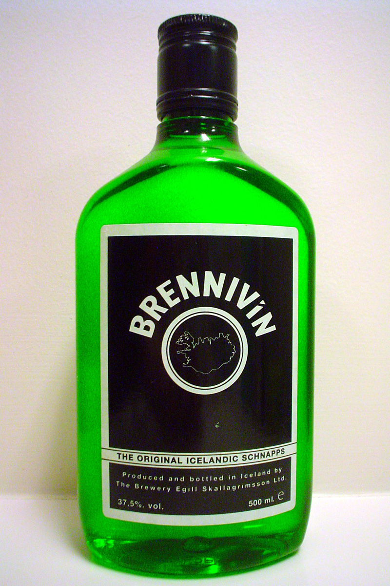 A bottle of the Icelandic schnapps Brennivín featuring its trademark black label.